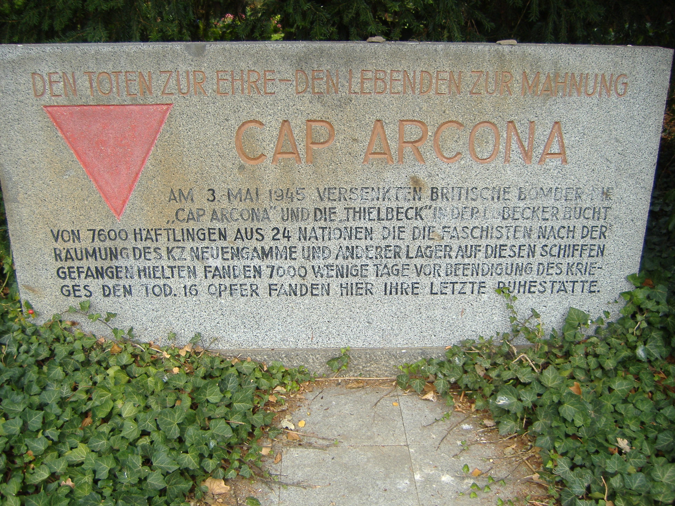 Cenotaph of Cap Arcona in Kluetz (Germany)